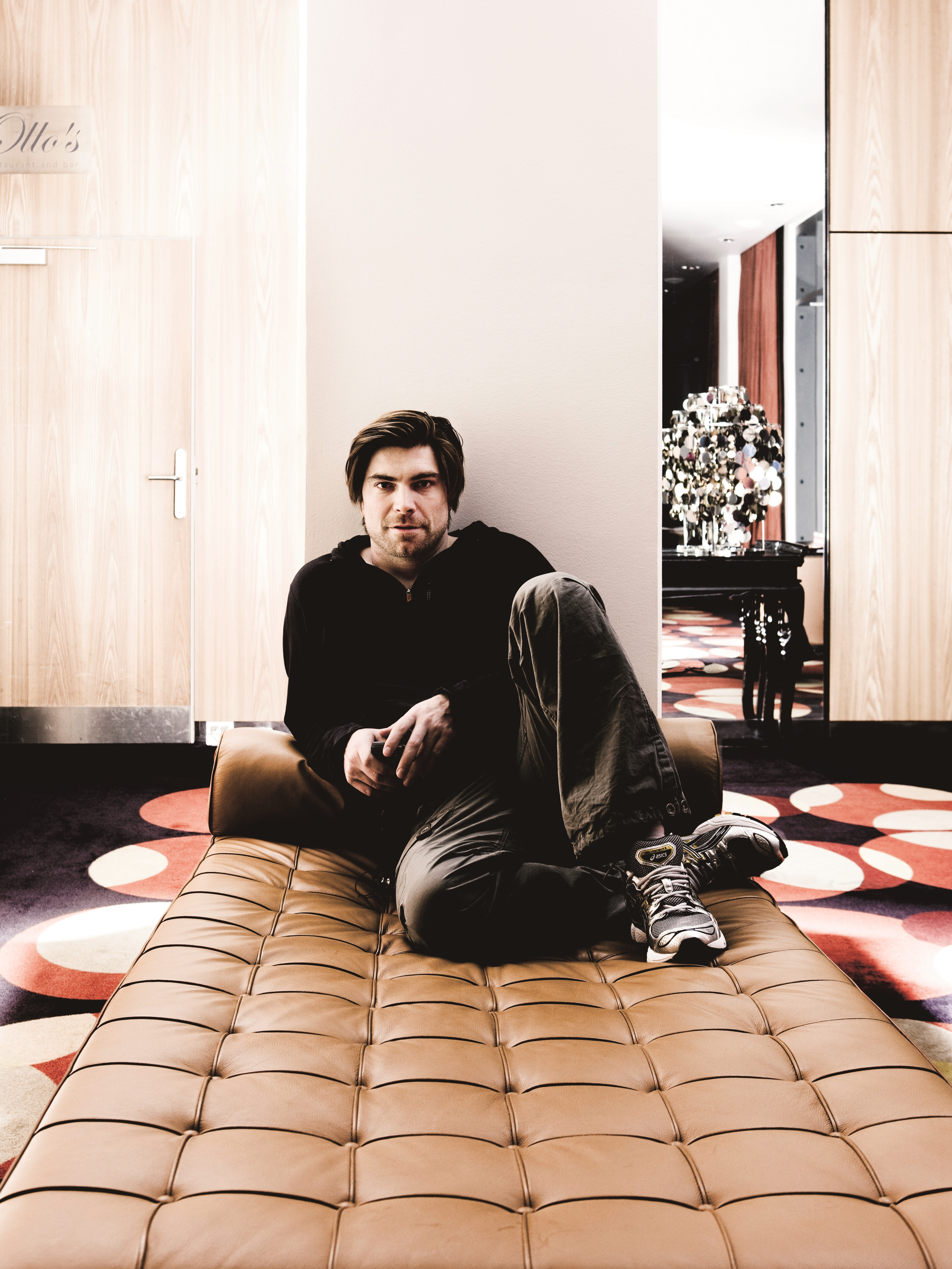 Morten Lund in Copenhagen, December 2007